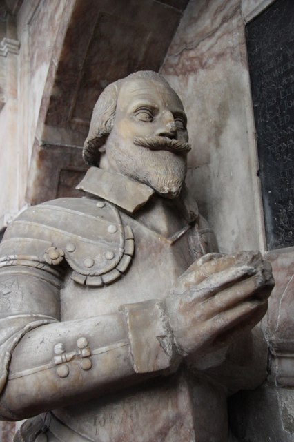 Sir Valentine Browne. Detail from his tomb on All Saints' church 1593179 - father of 15 children before his death in 1600